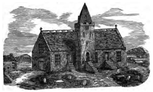 Illustration (c. 1798) of the original St Rufus Church in Old Keith, Keith, Moray, Scotland, from "A Survey of the Province of Moray, Historical, Geographical, and Political.–Printed for Isaac Forsyth, Bookseller, Elgin, 1798", as reprinted in Gordon, James Frederick Skinner, "The Book of the Chronicles of Keith, Grange, Ruthven, Cairney, and Botriphbie" (1880), page 23. The caption reads, "OLD KIRK–Re-built in 1569; Tower lowered in 1797; taken down in 1819. Length, 100 ft.; Breadth, 28 ft."